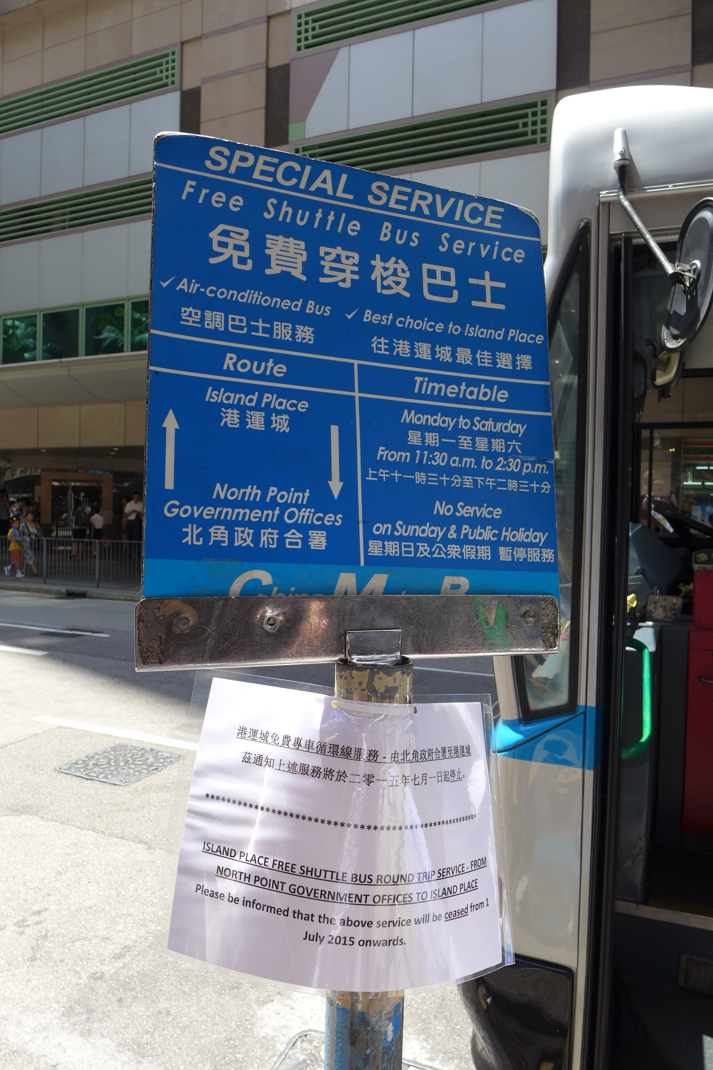 CMB Bus stop sign